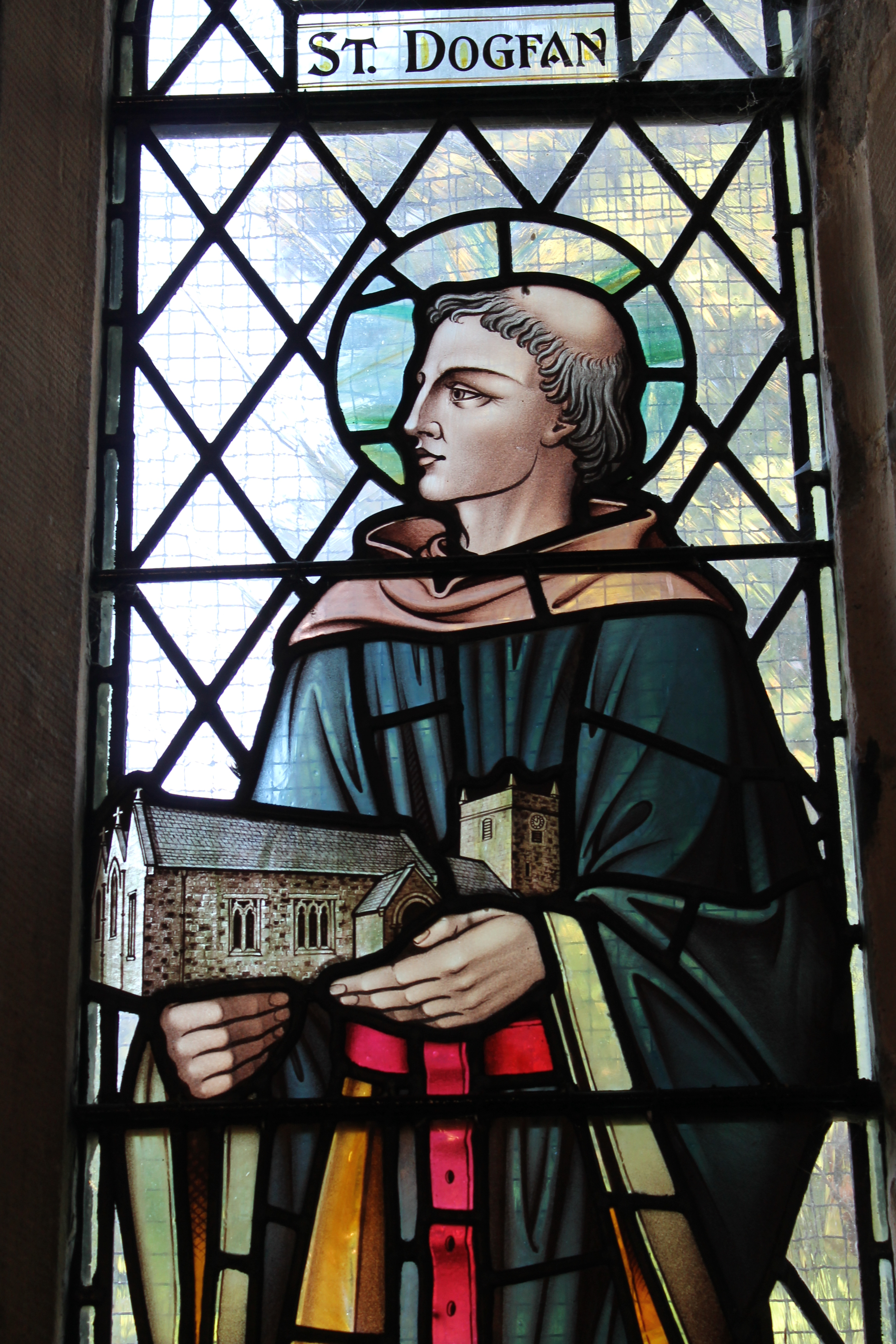 Grade: II* Church of St Dogfan, Llanrhaeadr-ym-Mochnant, Powys, Wales. Date Listed: 1 April 1966. It is thought to be of monastic (clas) origin; St Dogfan's was mentioned in 1254 as 'ecclesia de Llanrhaeadr'.